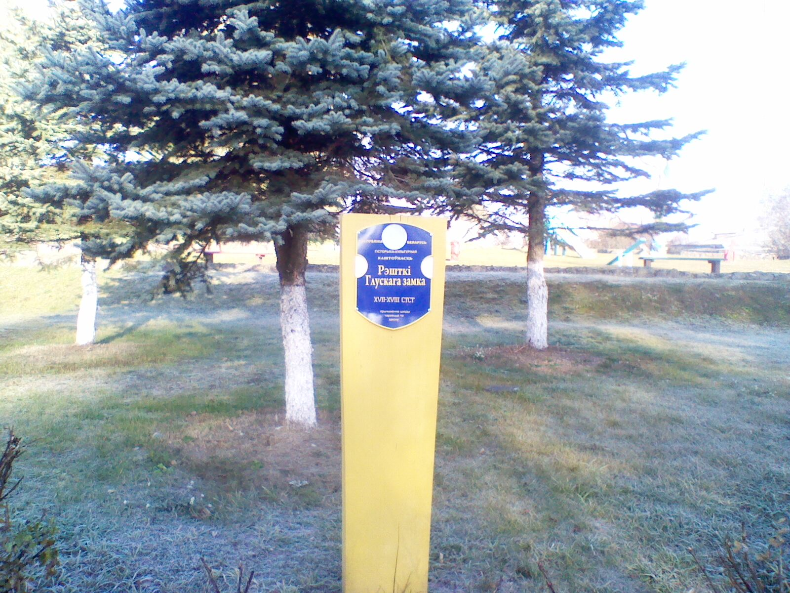 Беларуская (тарашкевіца): Замак. г. Глуск This is a photo of Belarusian heritage monument. Reference number: 513В000404 ( WLM)